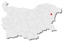 Map of Bulgaria, the red point is the position of Devnya.